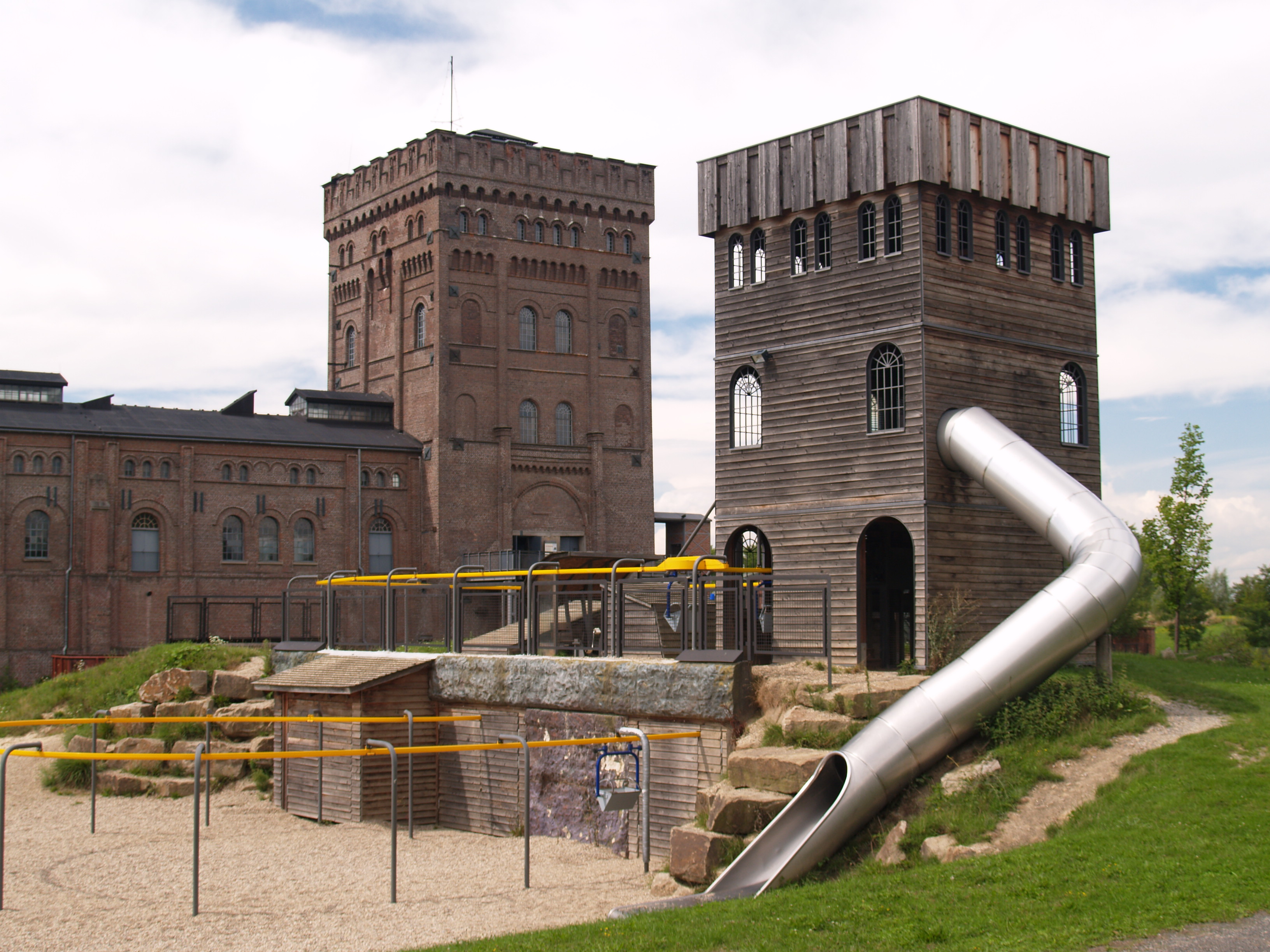 Mine "Hannover" with playground 'Zeche Knirps' in Bochum, Germany